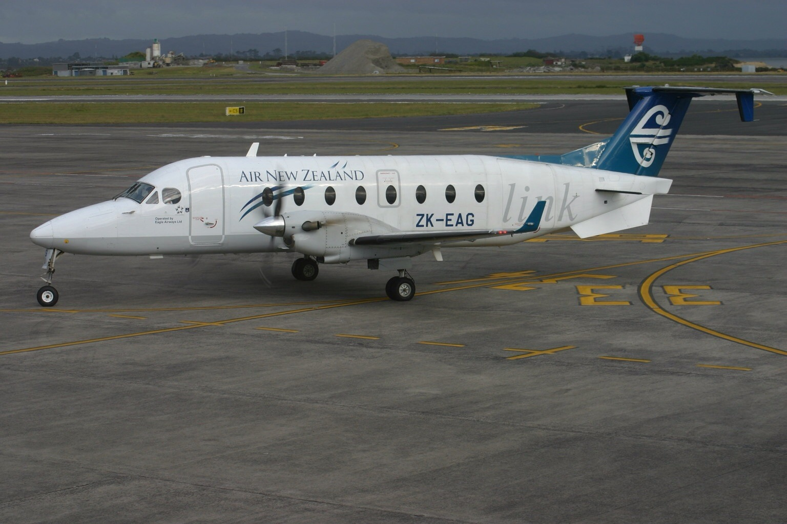 At Auckland